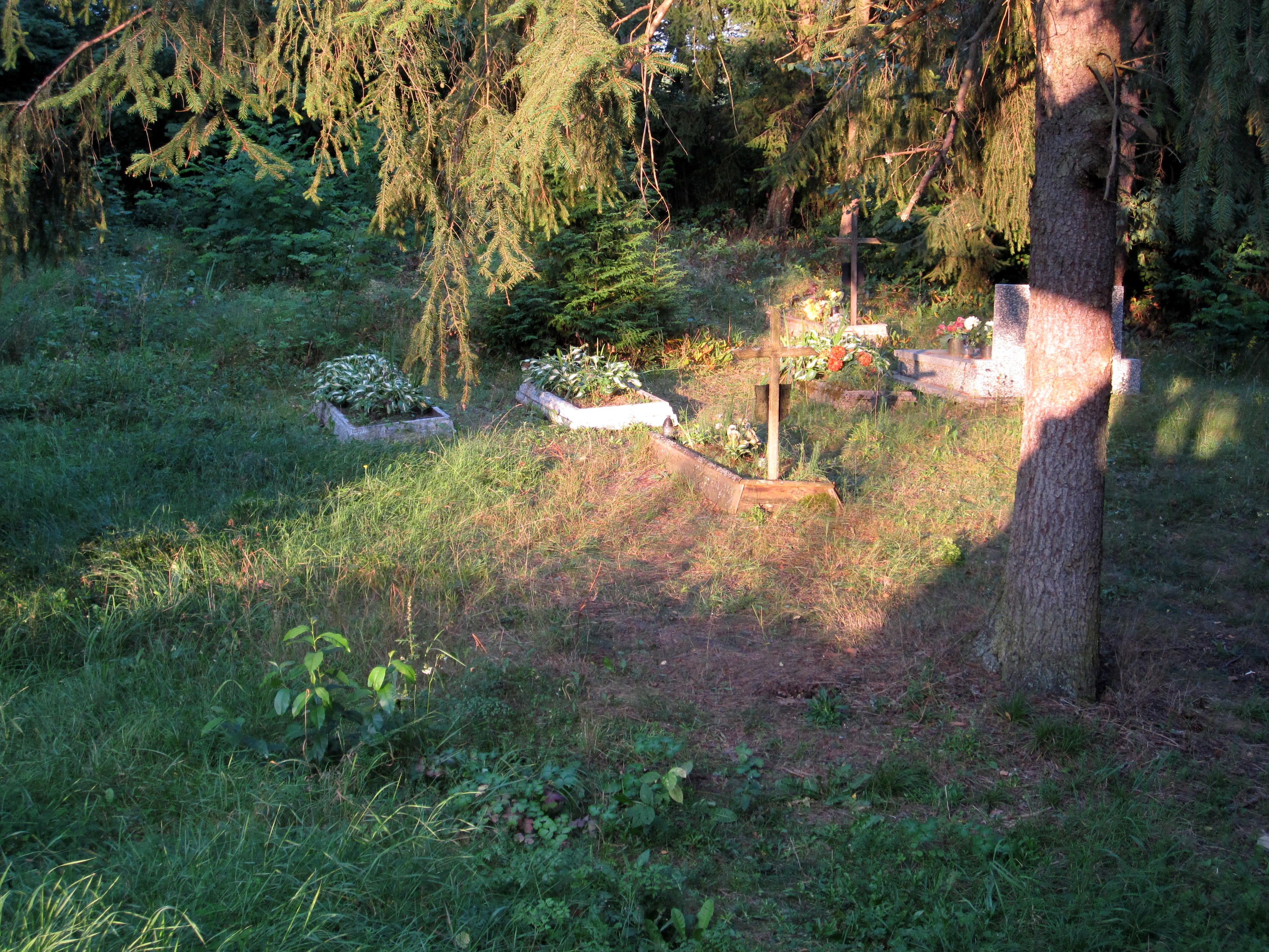 Graves in Zyzdrojowy Piecek